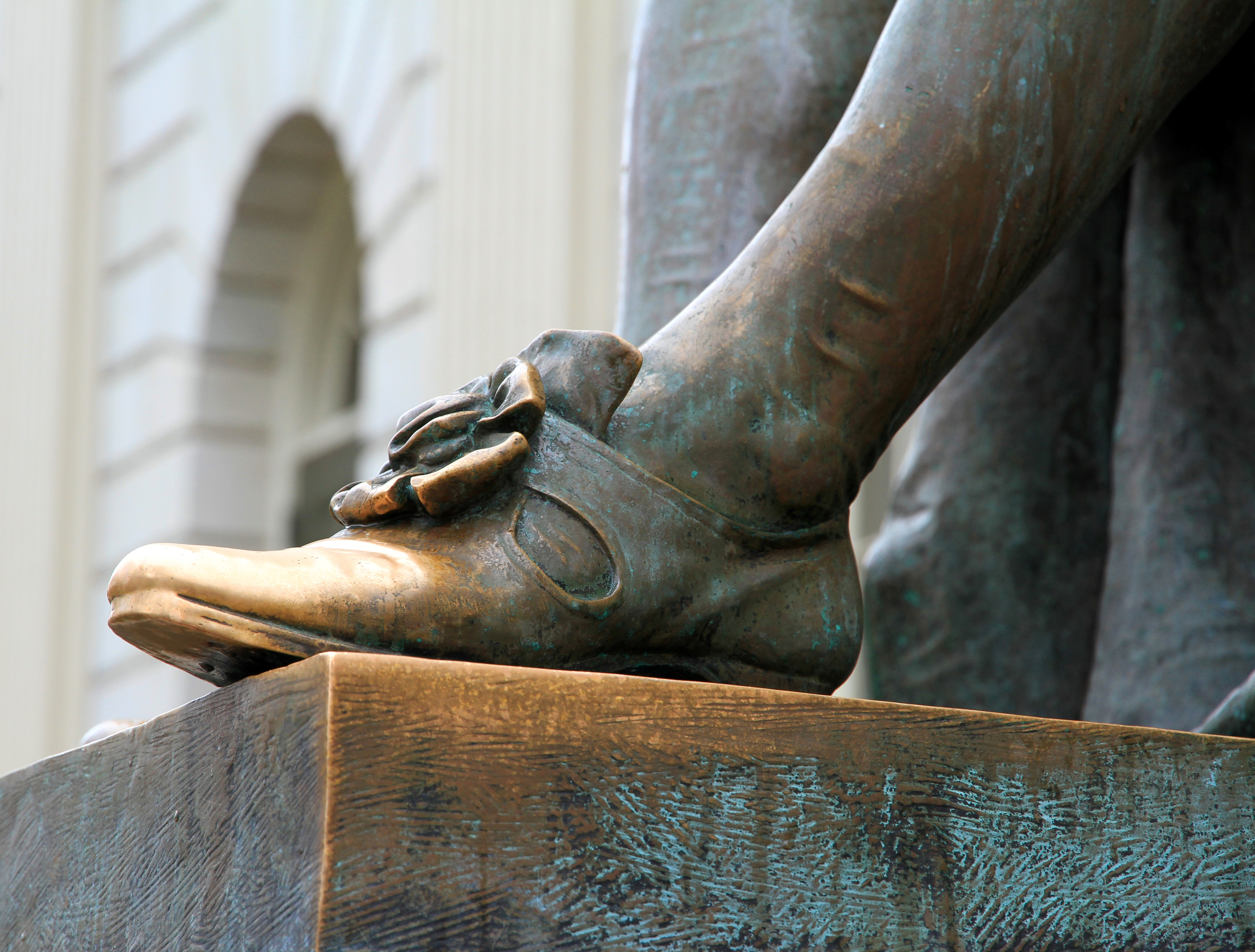 John Harvard Statue in Harvard Yard